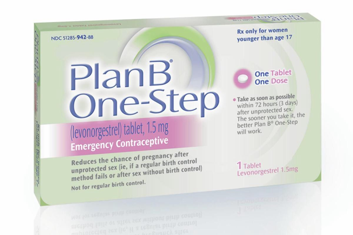 Rx only under 17